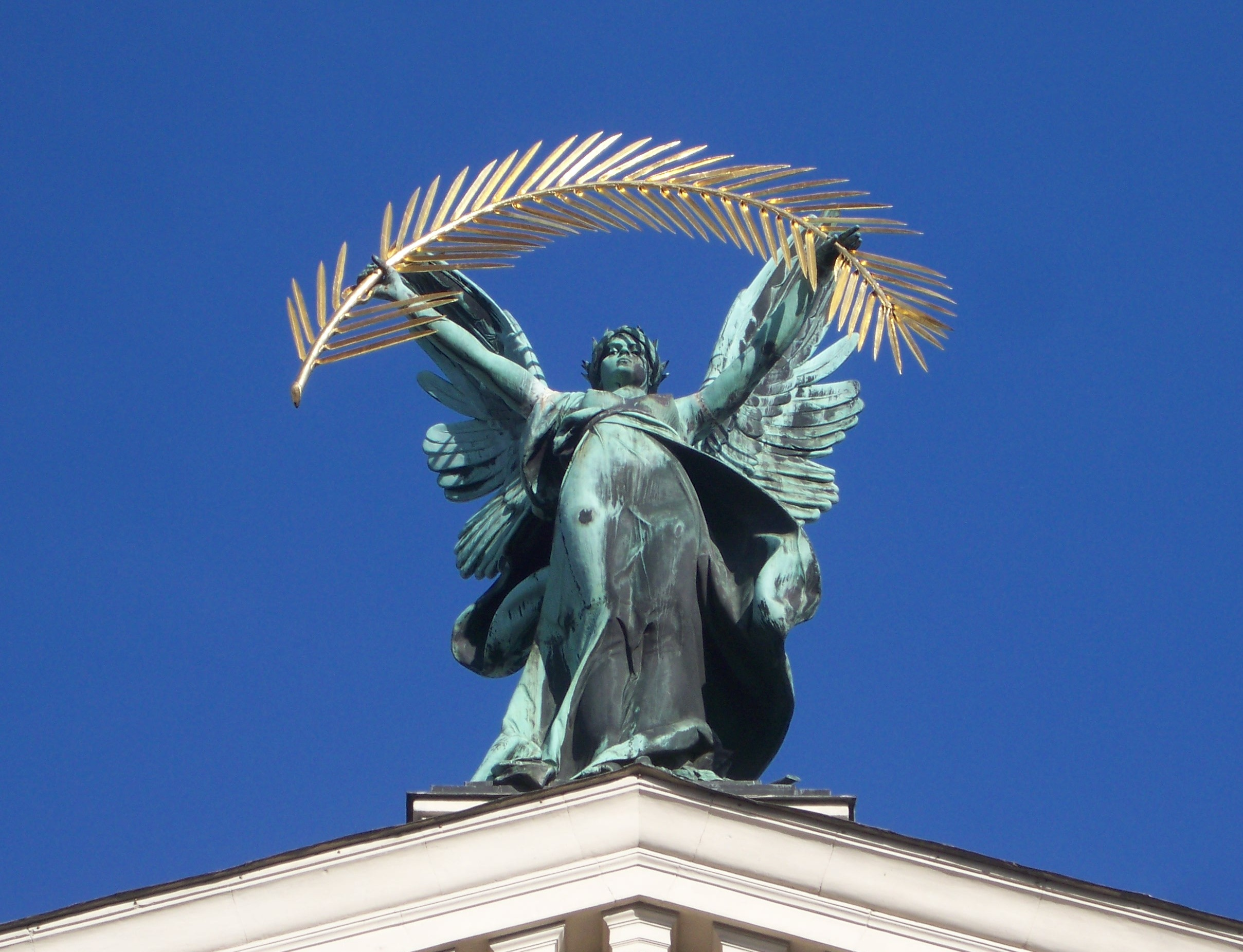 Sculpture Glory at top of Lviv Opera House